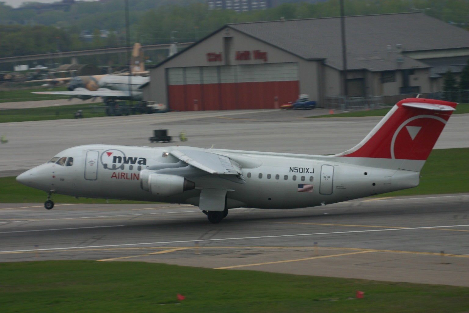 At Minneapolis-Saint Paul